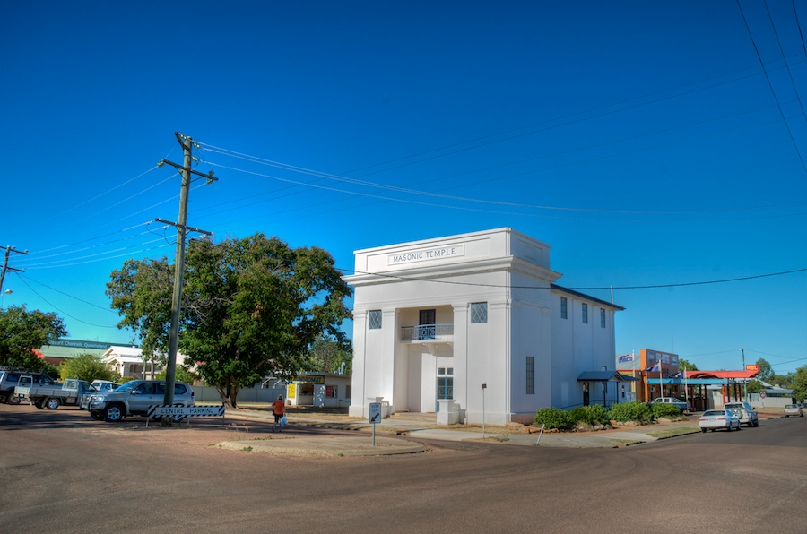 Photo of the Masonic Temple in Longreach, designed by the architect, Elina Mottram.